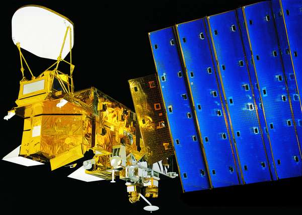 The Aqua satellite is one of a series of space-based platforms that are central to NASA's Earth Observing System (EOS), a long-term study of the scope dynamics and implications of global change